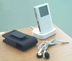 3G iPod with included dock, earphones, and beltclip carrying case.